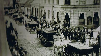 German sailors who have floated ashore after the battle of Jutland in 1916.